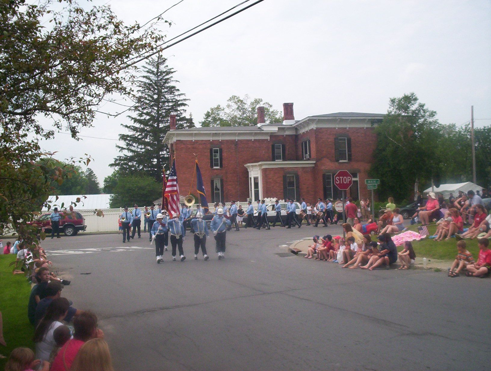 July 4th (2006) Parade in Norwood, New York, USA. Taken July 2006 by User:Walkerma.